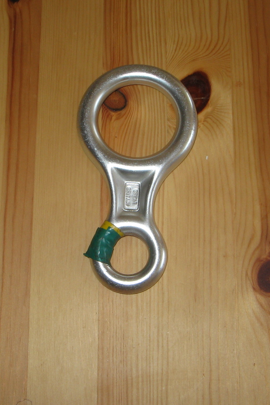 A Figure Eight descender. Uploaded by Stewart Adcock, 29 May 2005. Stewart Adcock's website